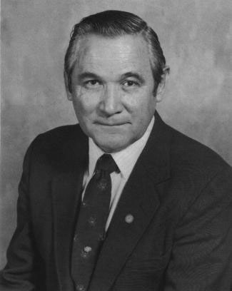 Image of Dallas Lynn Peck (1929-2005), an American geologist and 11th director of United States Geological Survey